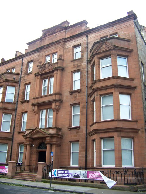 The student accommodation for the Ballet School in West Princes Street, Glasgow